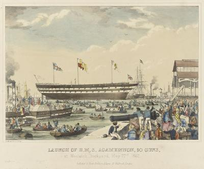 Launch of HMS Agamemnon, May 22, 1852